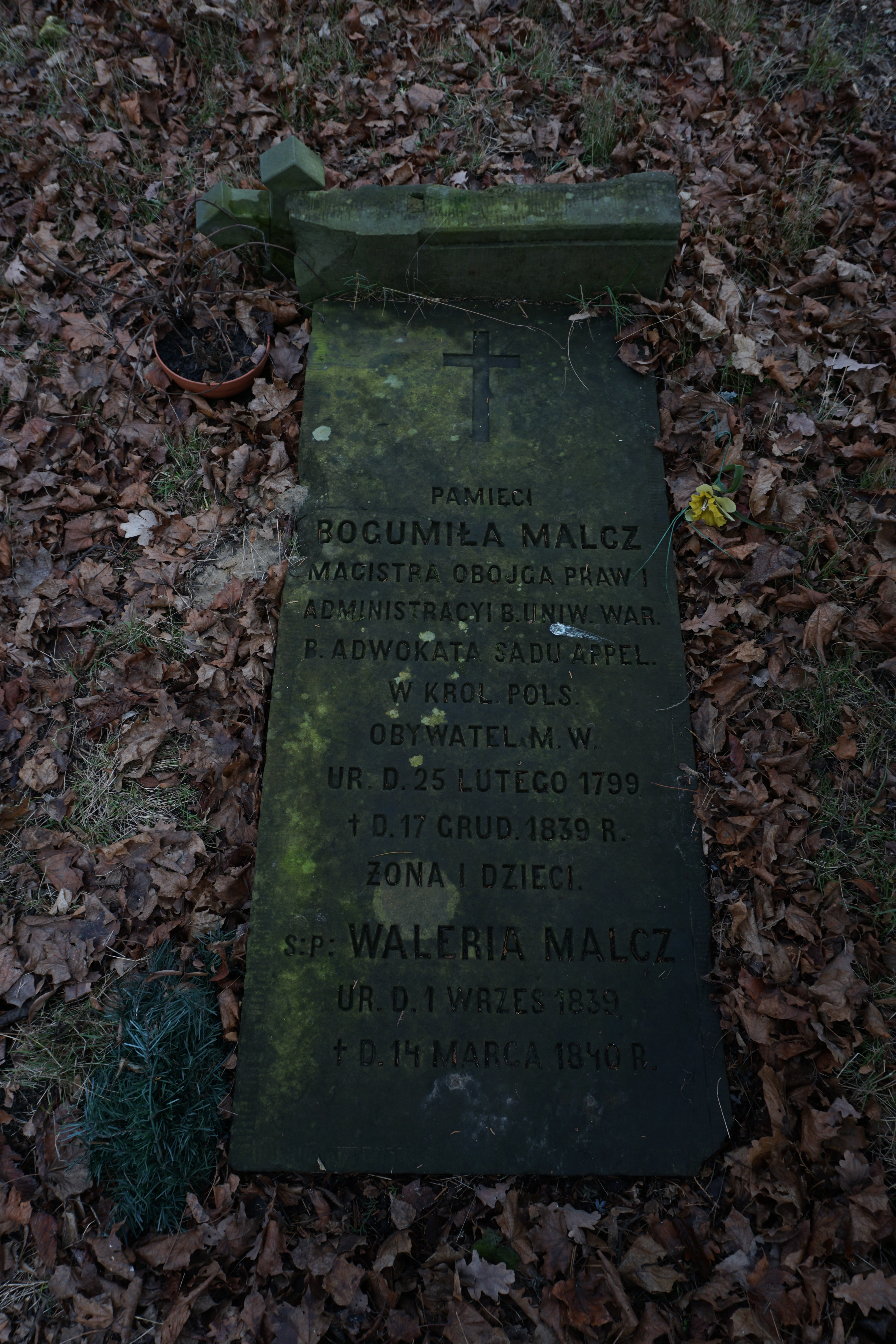 The grave of Konstanty Bogumił Malcz at the Evangelical Cemetery (Avenue 1, grave 16)